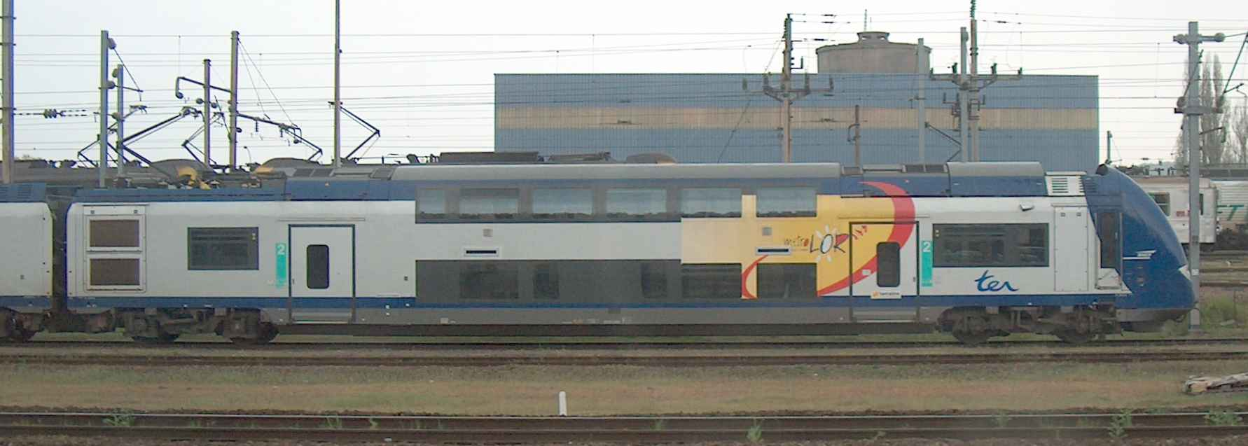 New TER Métrolor double-decker trains, at the Thionville depot